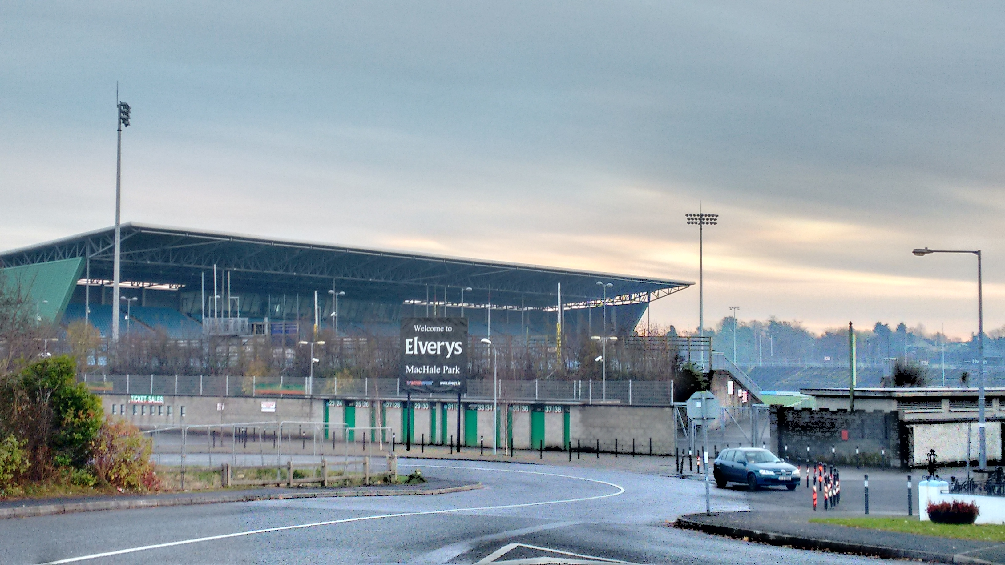 Picture of MacHale Park, Castlebar, Ireland, taken November 2016